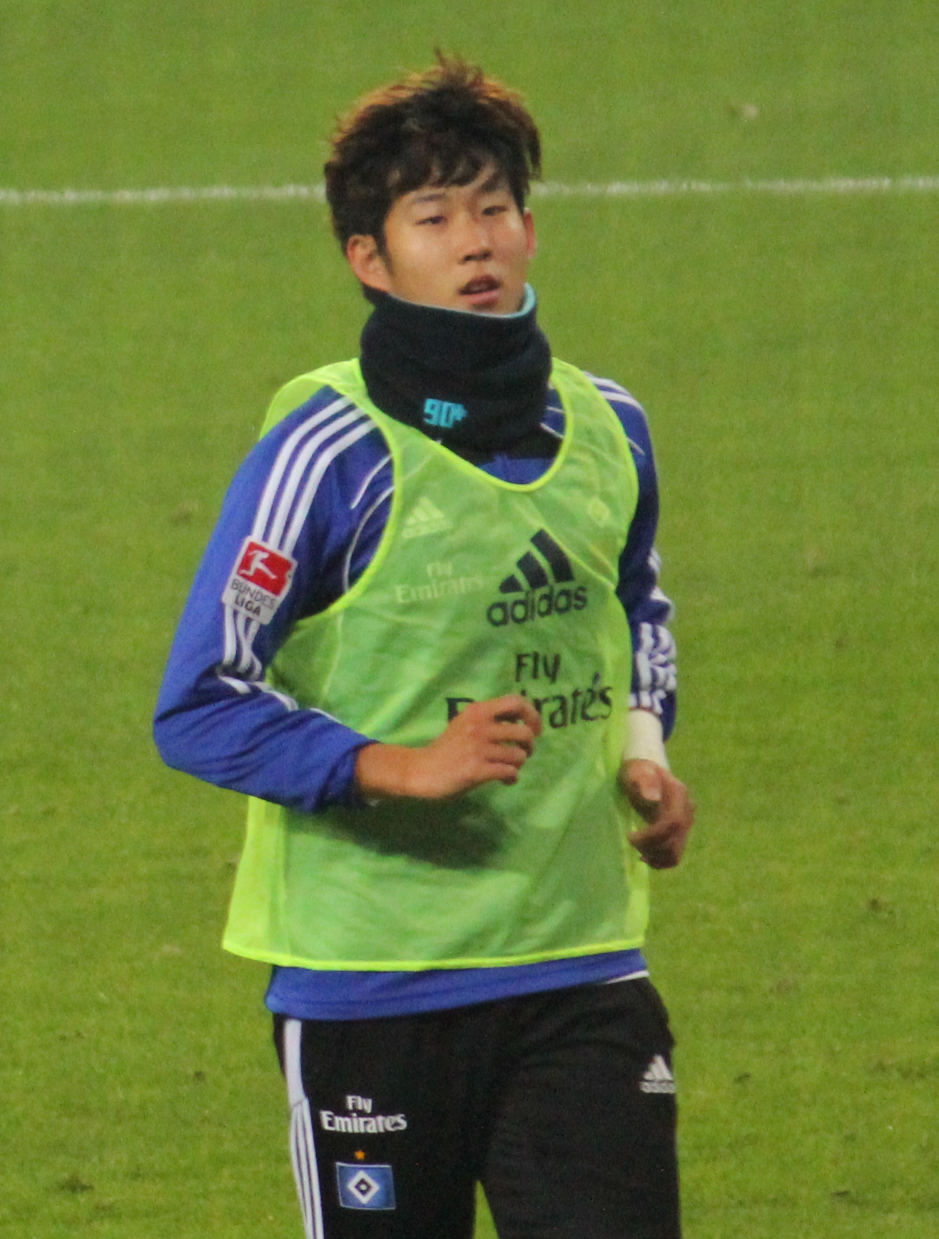 Son Heung-Min, South Korean football player for Hamburger SV.